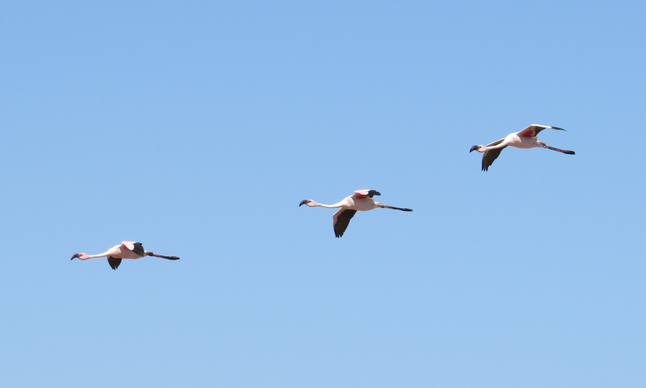 Flying flamingos in Namibia